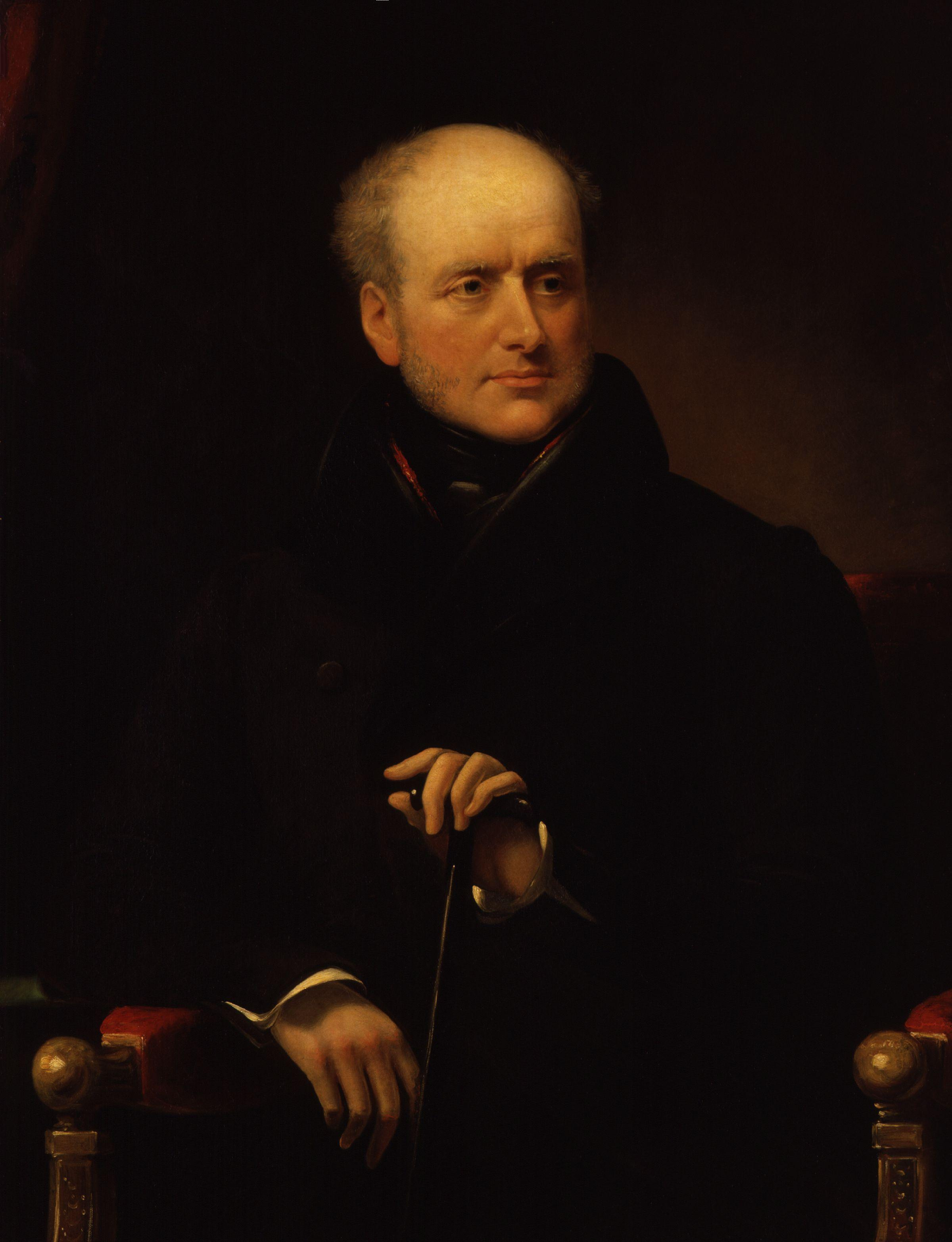 James Smith, by James Lonsdale (died 1839). All images in this batch have been confirmed as author died before 1939 according to the official death date listed by the NPG.